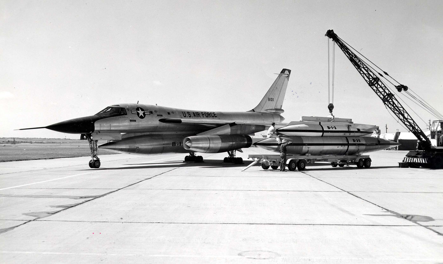 Convair RB-58A Hustler 3-4 front view (SN 58-1011)